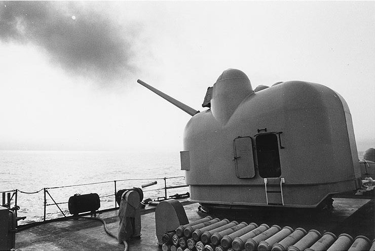 USS Turner Joy (DD-951): Firing one of her three 5"/54 Mark 42 gun mounts (Mount 52) toward an enemy shore position in Vietnam, 20 June 1968. Note the ejected powder canister flying through the air in front of the gun mount, and other powder canisters stacked on deck in the foreground.